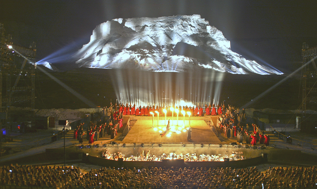 masada dead sea israel